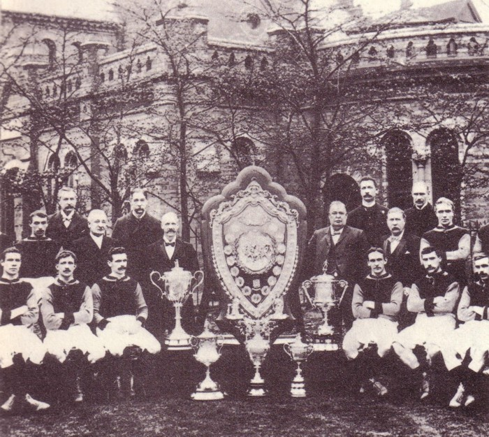 The Aston Villa team of 1899 that won First Division and Sheriff of London Charity Shield (shared with Queen's Park). The hugely successful team Ramsay assembled at the end of the 19th Century. Ramsay can be seen standing on the far left of the back row. The presence of the large shield (the Sheriff of London Shield) in the centre of the image attests to this being an 1899 photograph.